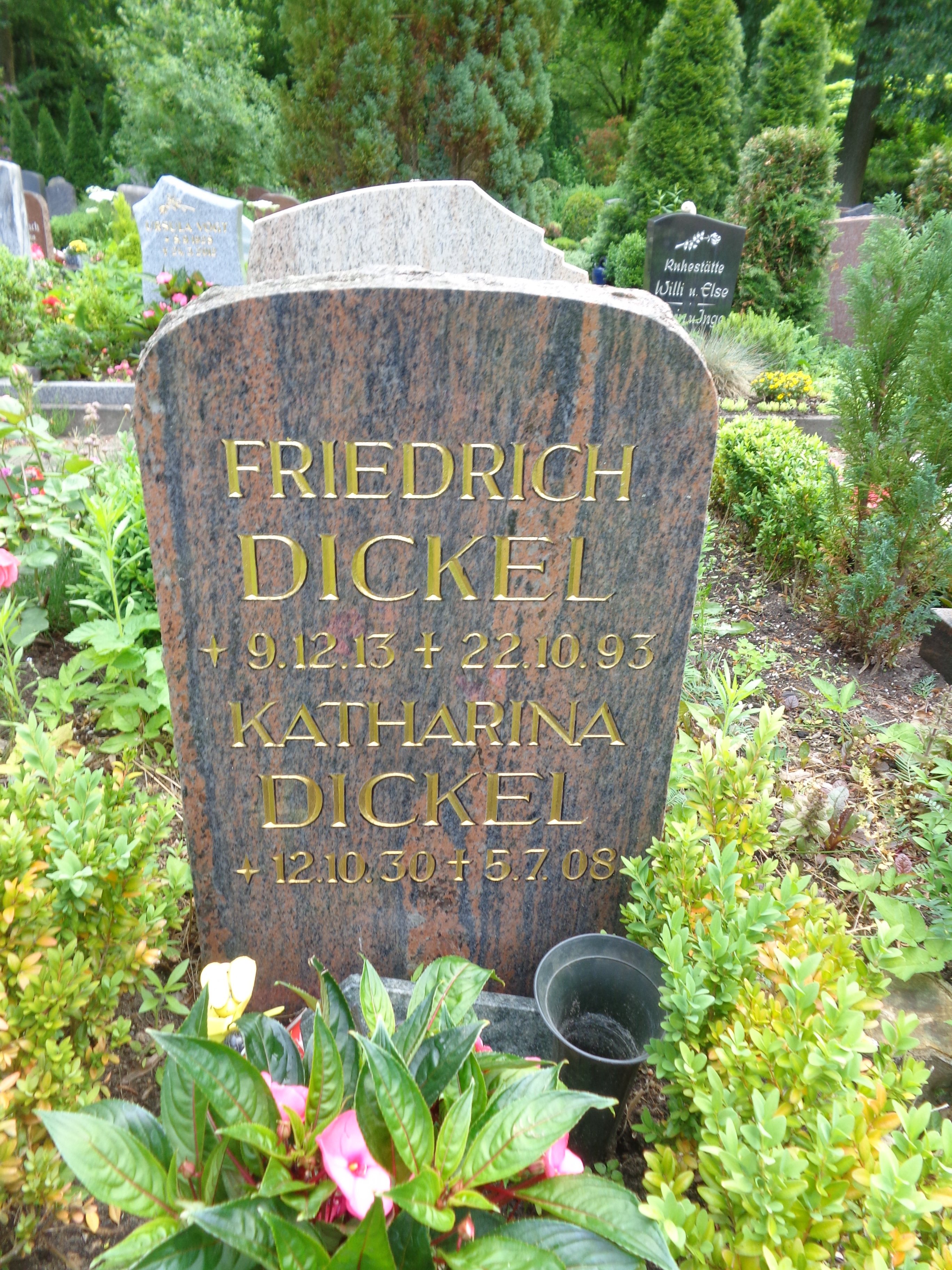 Grave of Friedrich and Katharina Dickel at the Waldfriedhof Gruenau in Berlin-Gruenau in June 2017. From 1963 to 1989, Friedrich Dickel (1913-1993) was home secretary and police director of East Germany (DDR).